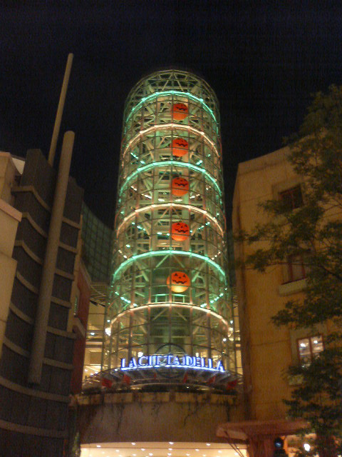 The Glass Tower of LA CITTADELLA in Halloween season, Kawasaki city, Kanagawa, Japan